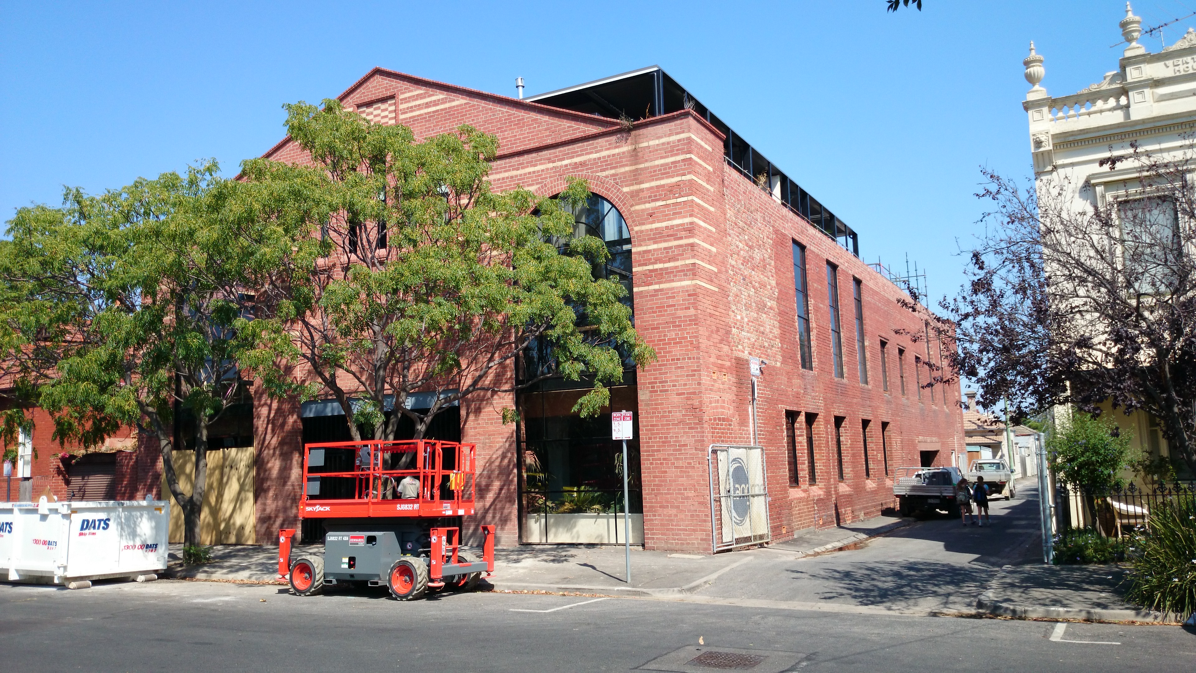 Dux House located on O'Grady Street in Albert Park.